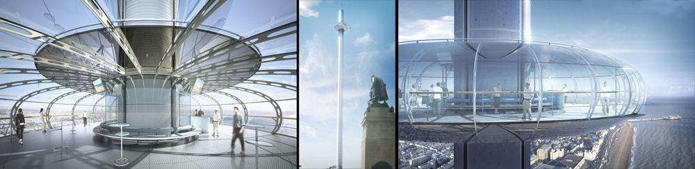 CGIs of Brighton i360 by local visualisation studio F10 Studios